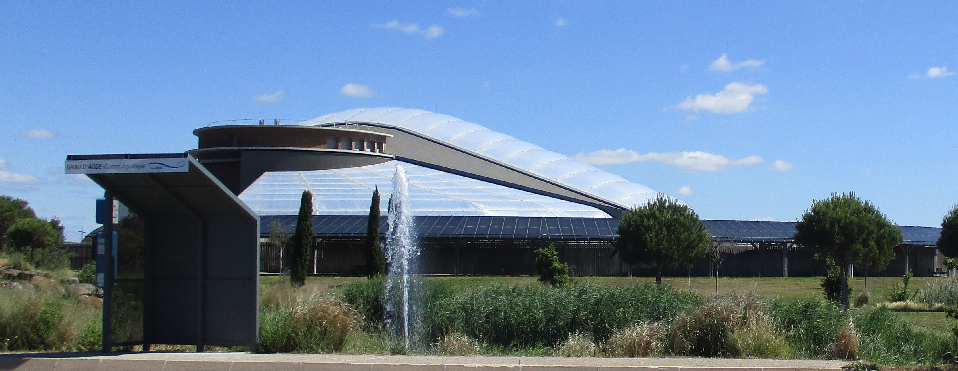 swimming pool in a park, access with bus (new pedestrian urban plan)